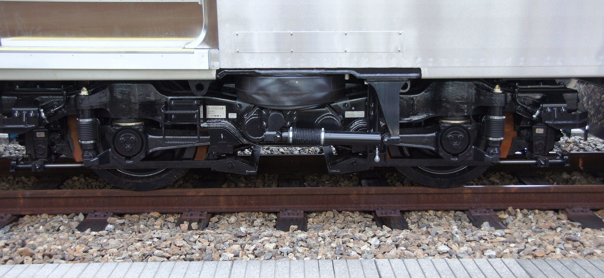 N-DT733 motor bogie on a JR Hokkaido 733 series EMU on delivery at Hyogo station